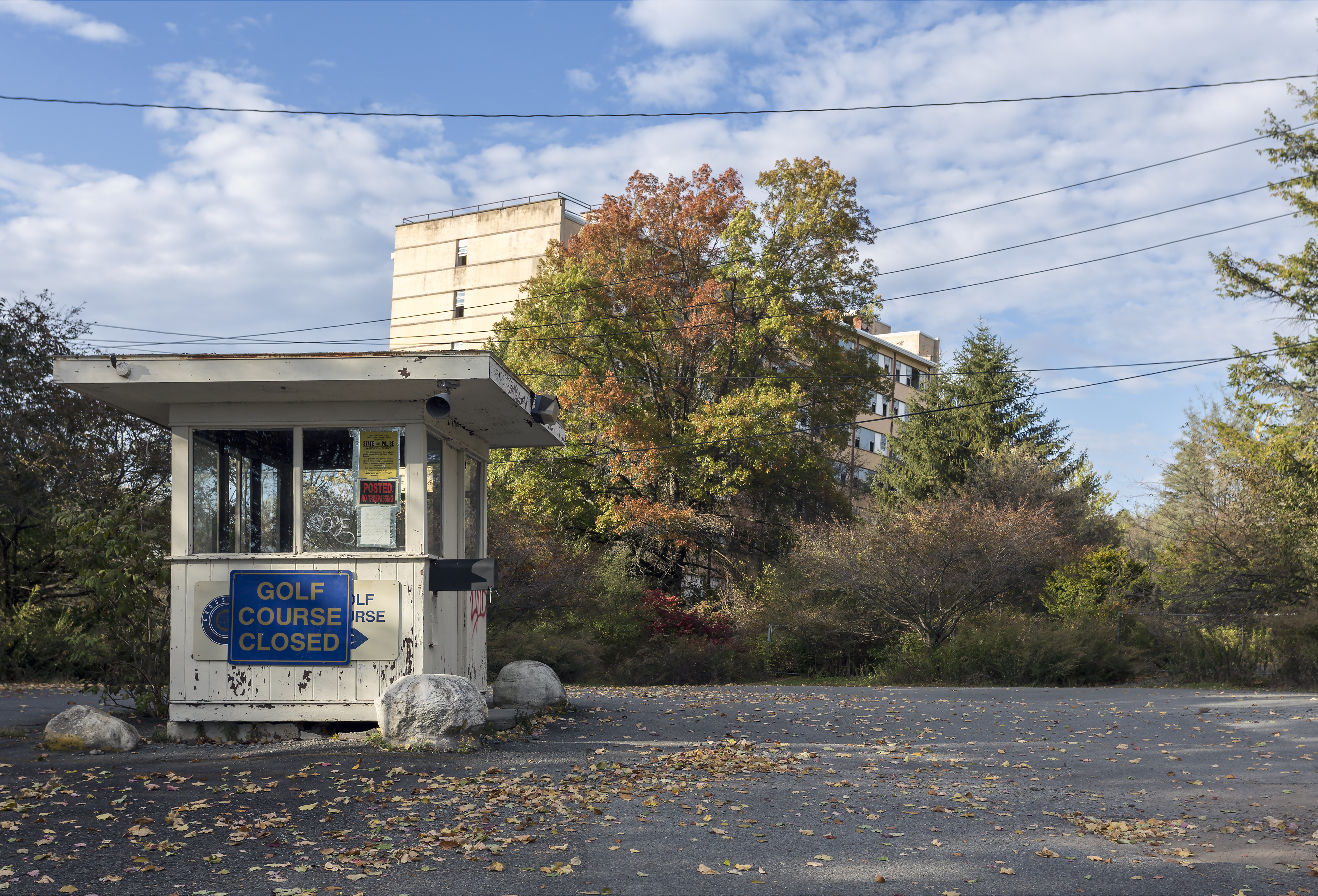 The abandoned Grossinger's Resort gatehouse and main building, Liberty, New York, USA